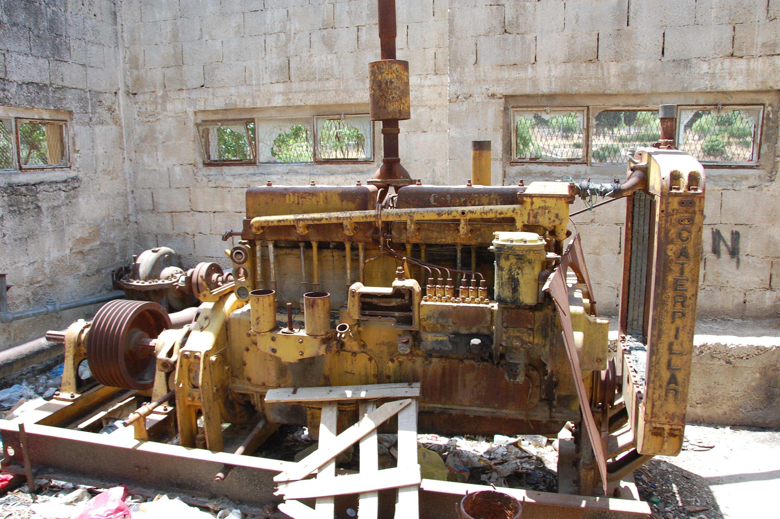 old Caterpillar engine for water pump at the Mamilla Pool, Jerusalem, Israel